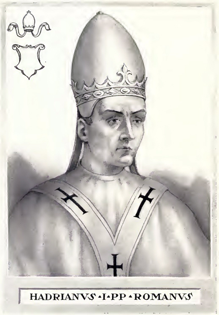 This illustration is from The Lives and Times of the Popes by Chevalier Artaud de Montor, New York: The Catholic Publication Society of America, 1911. It was originally published in 1842.